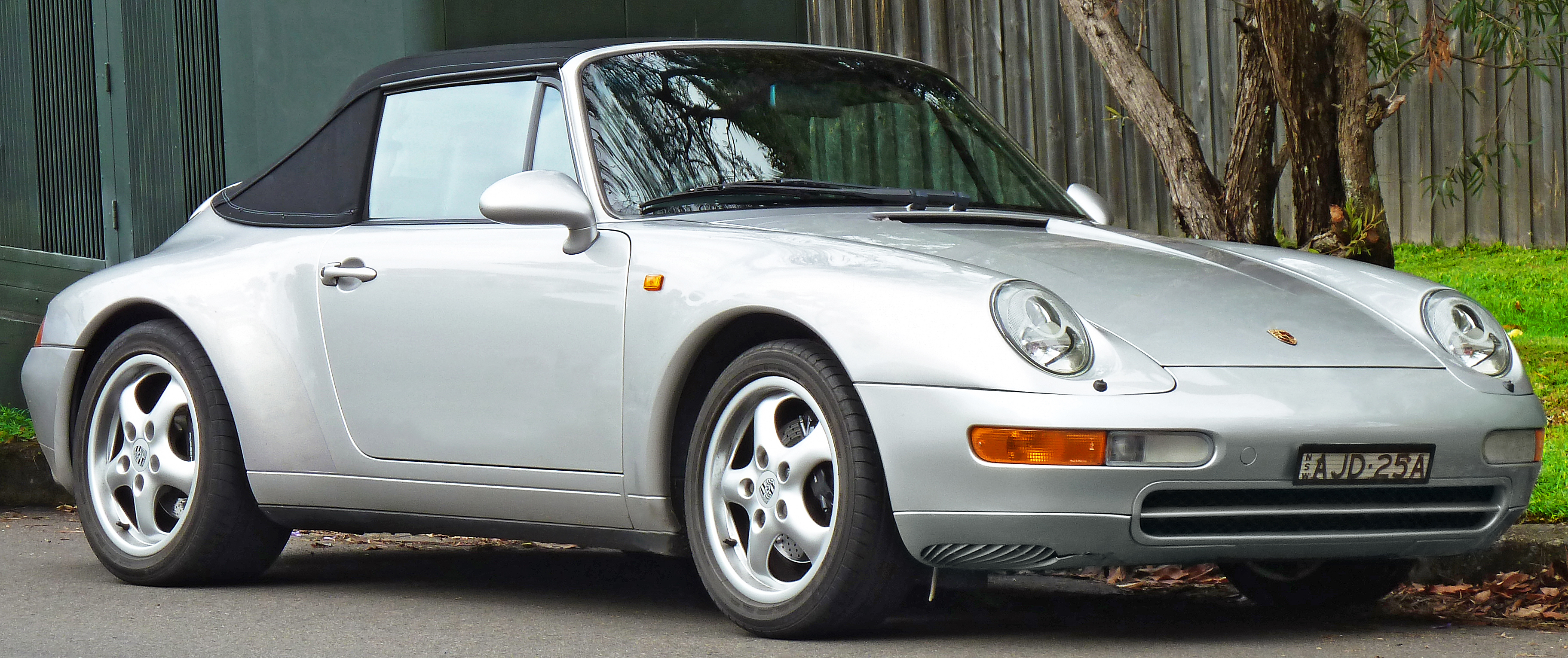 1997 Porsche 911 Carrera (993) convertible. Photographed in Gordon, New South Wales, Australia.